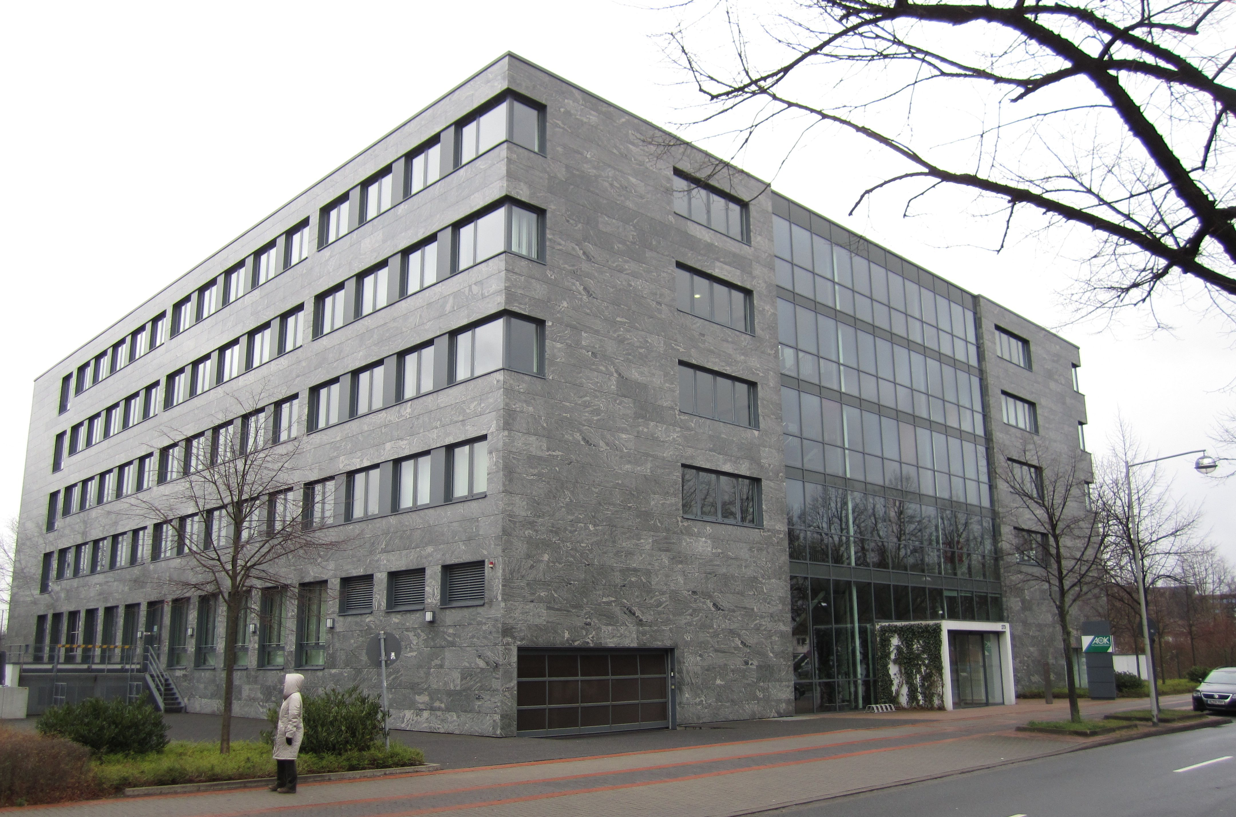 Office building of AOK Niedersachsen, Hanover, Germany.